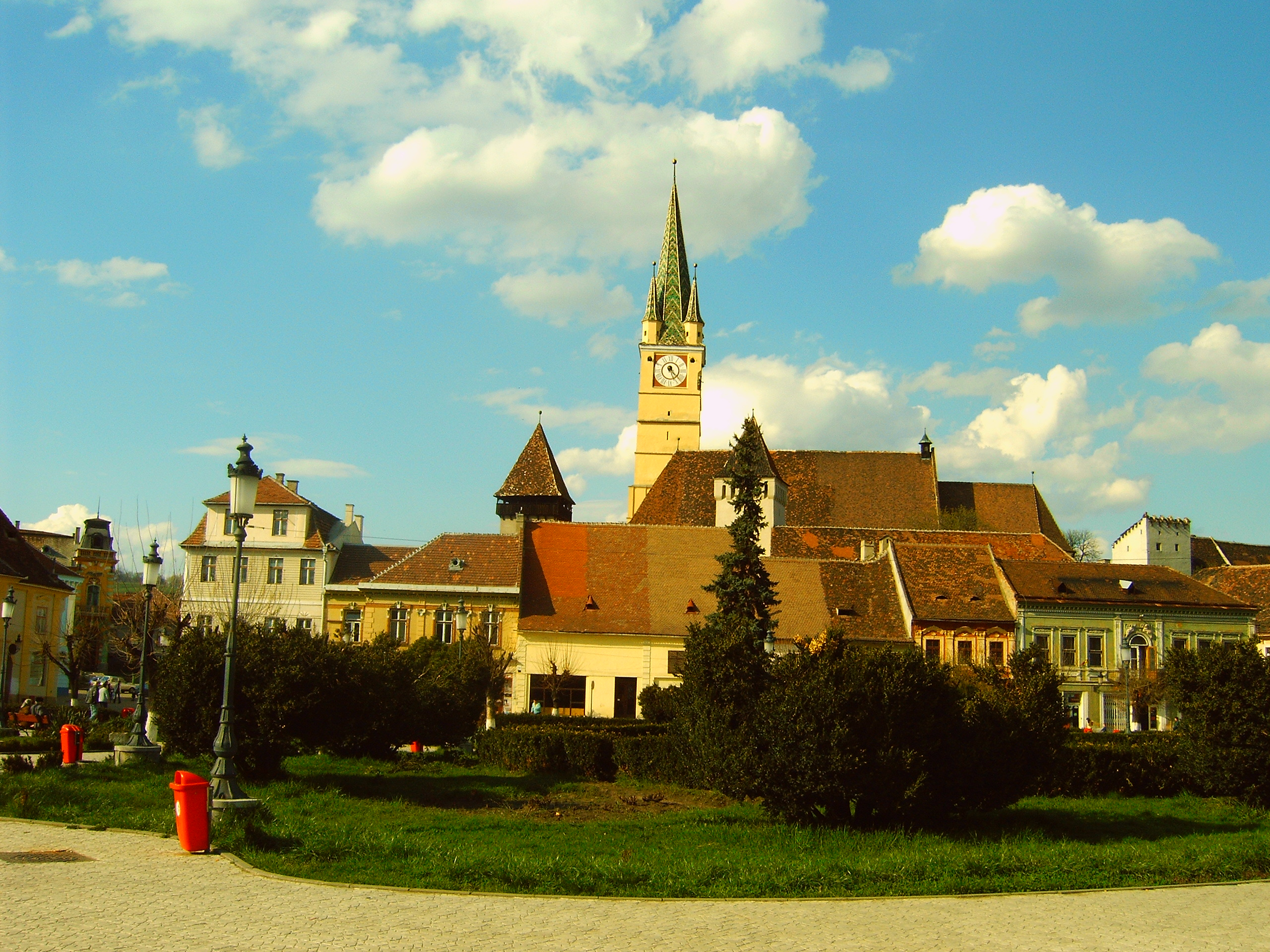 Main square of Mediaş, Transylvania, Romania